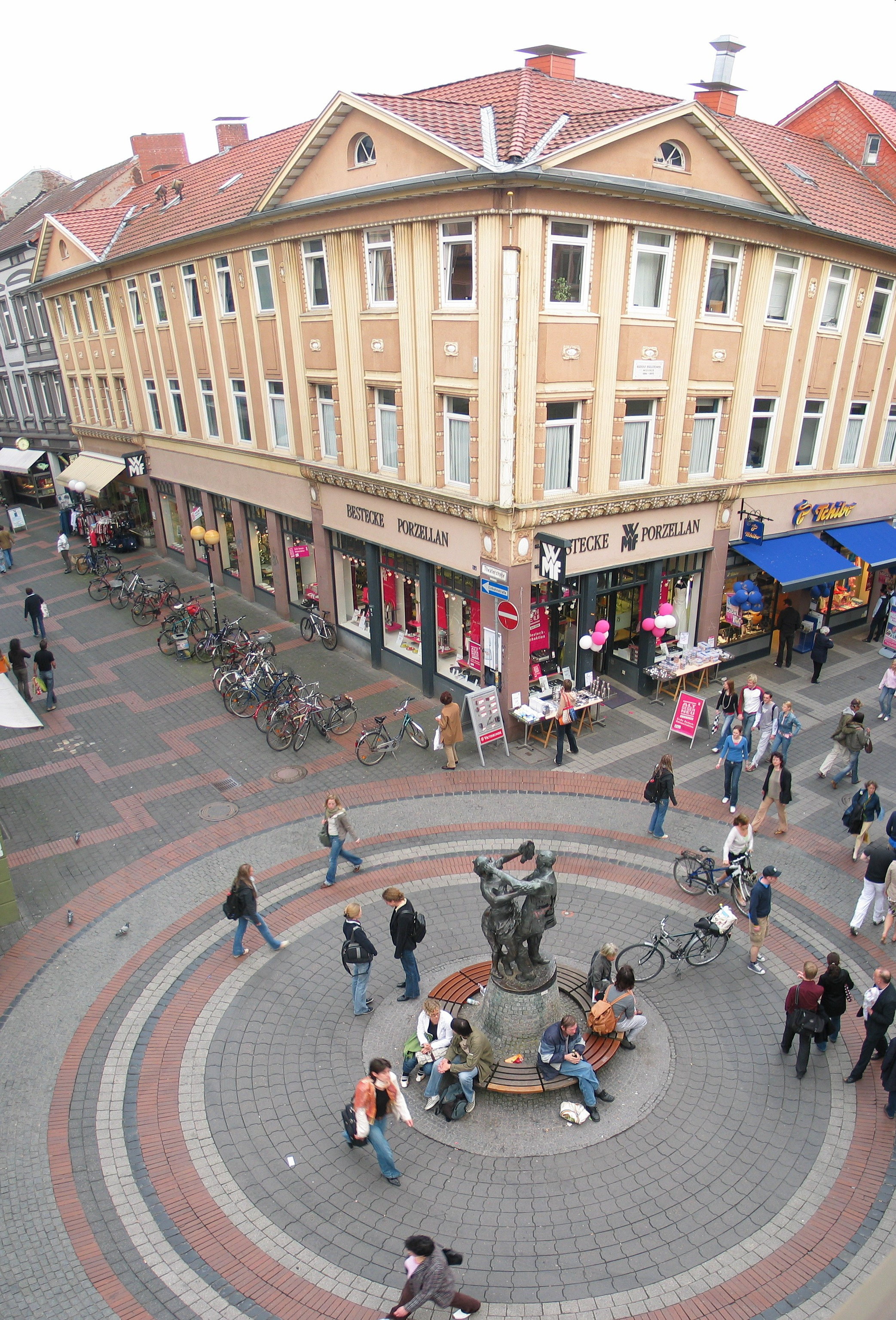 Panorama of "The Navel" (Der Nabel), center of the pedestrian zone in Göttingen, Germany.